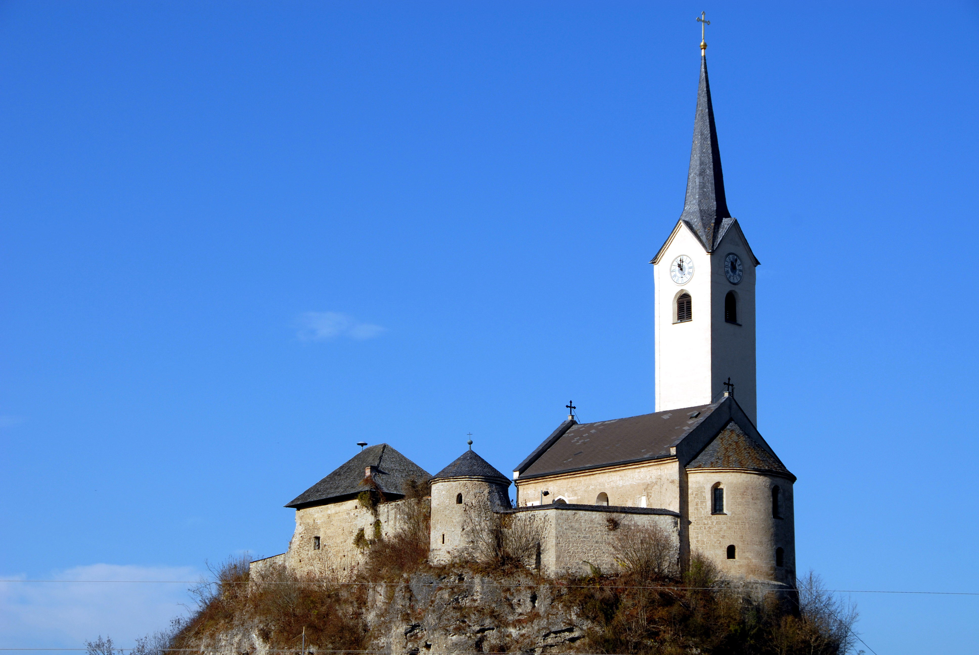 Parish church Saint Lawrence in Stein im Jauntal, municipality Sankt Kanzian am Klopeiner See, district Voelkermarkt, Carinthia, Austria, European Union